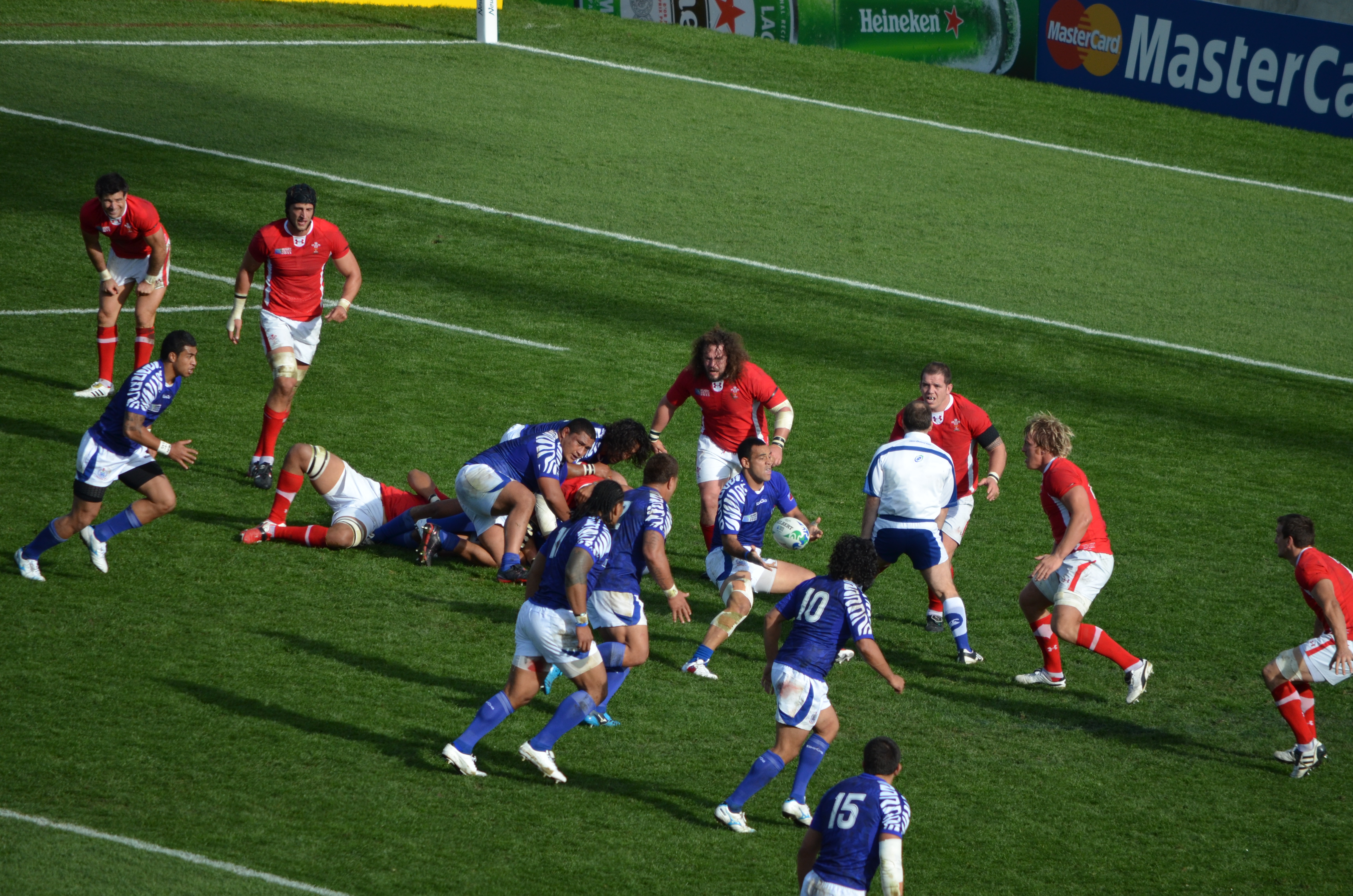 Match between Wales and Samoa during 2011 Rugby World Cup in New Zealand.